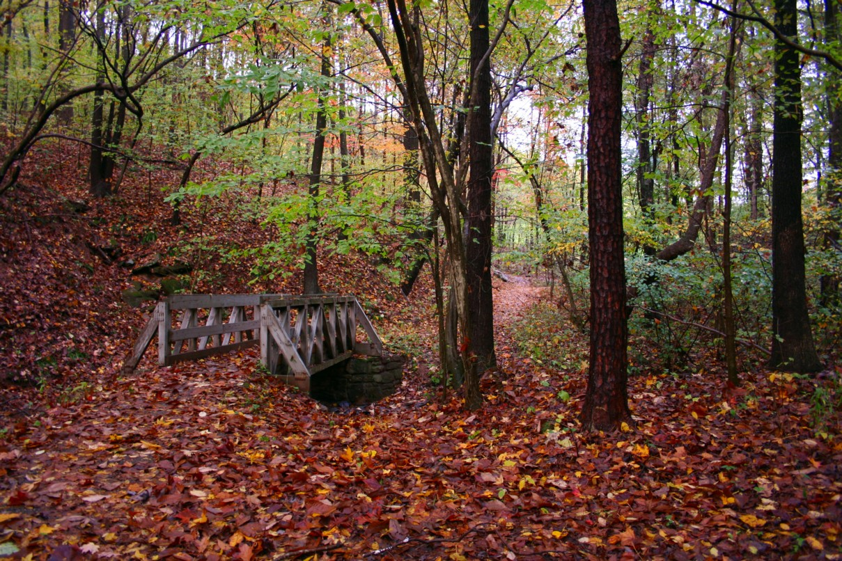 Bridge in Dunbar Wine Cellar Park, 1101 Dutch Hollow Rd.?